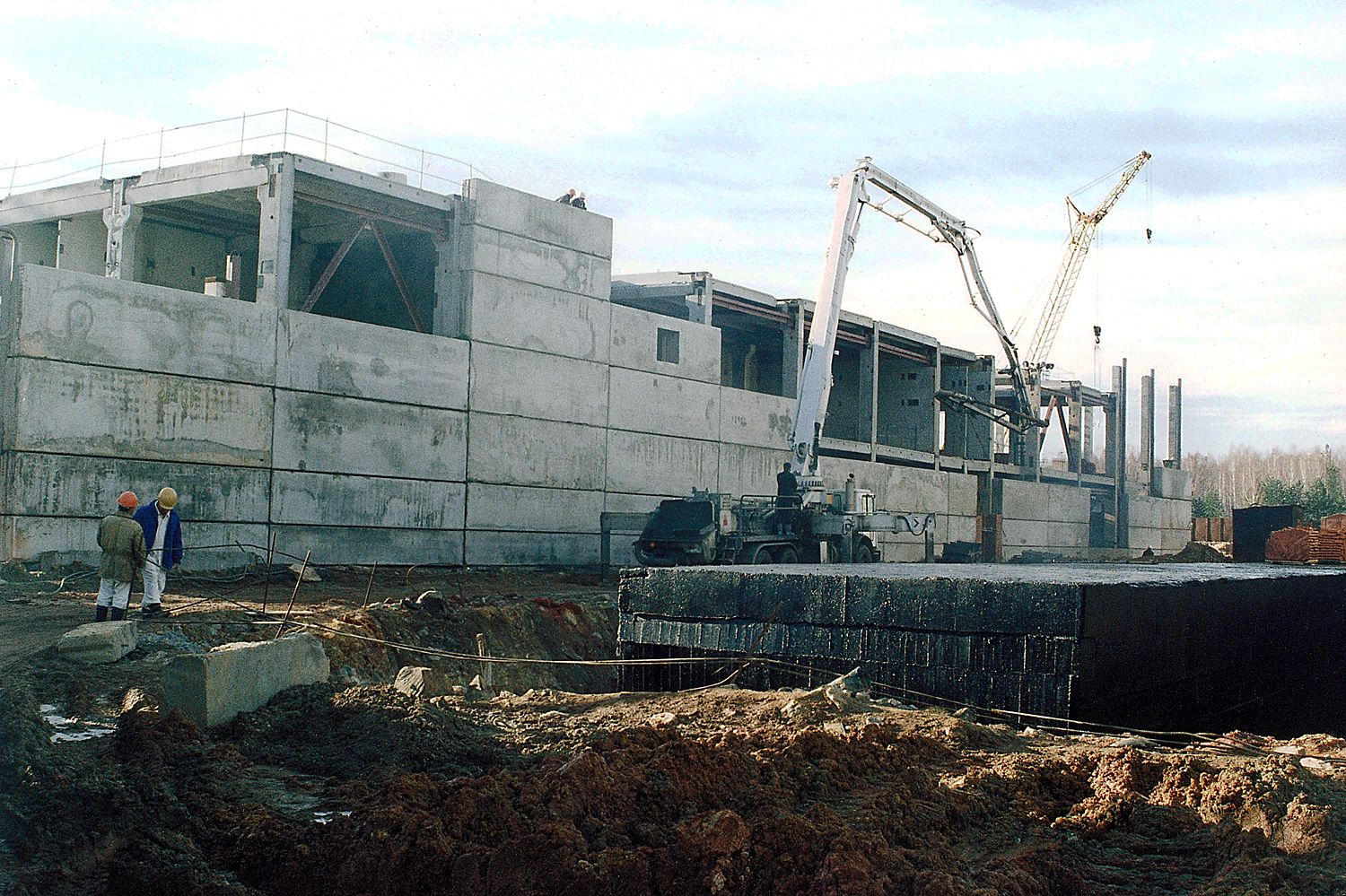 Original Desciption: Fissile Material Storage Facility (FMSF). The building is the ventilation center of the storage facility. The ventilation tunnel showing in the north of the ventilation center. Mayak, Russia.